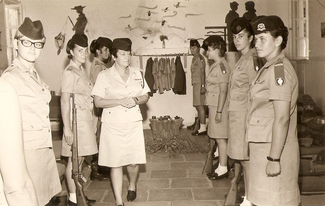 Course Grade headquarters , Israel Defense Forces